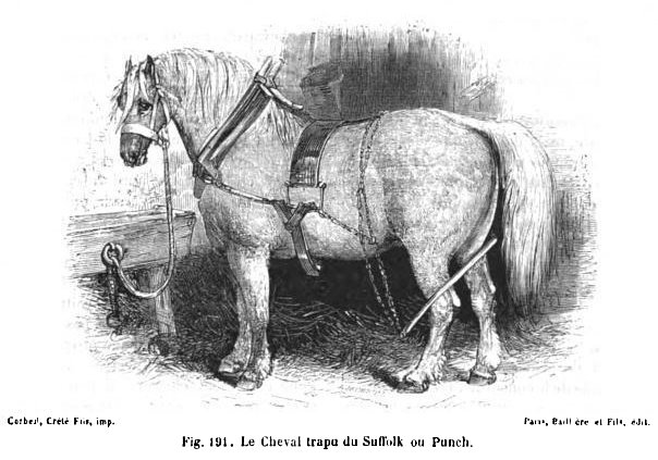 Suffolk Punch horse